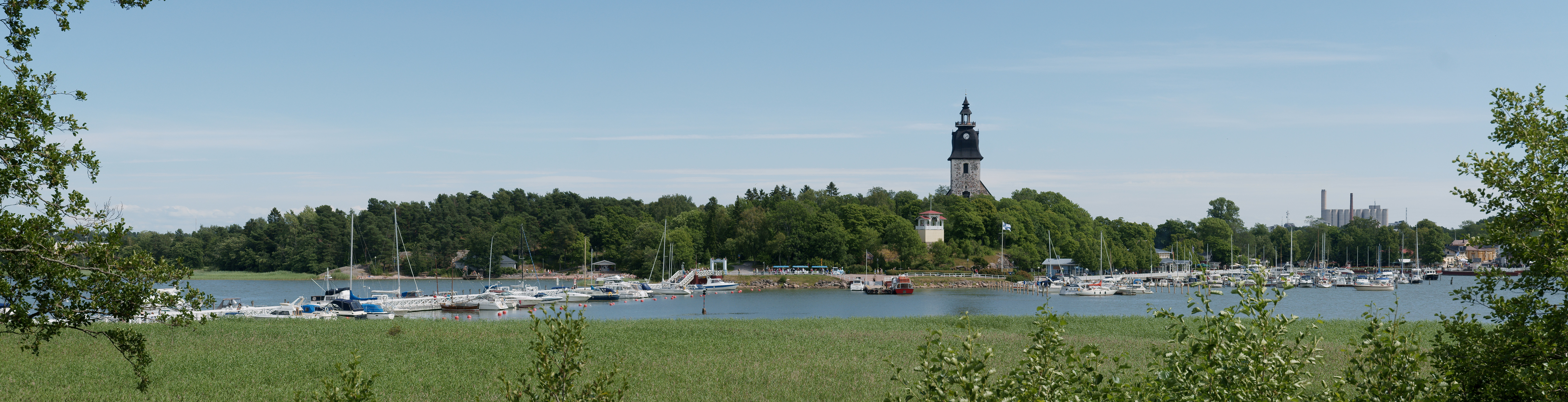 Panorama from Muumimaailma to Naantali.